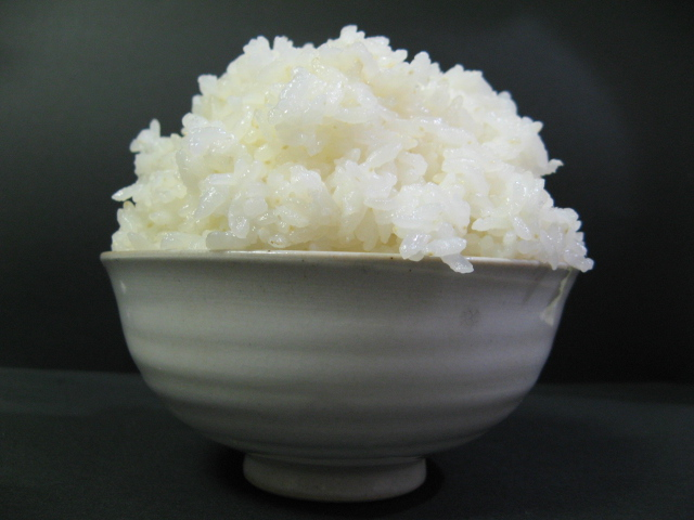 Super large serving